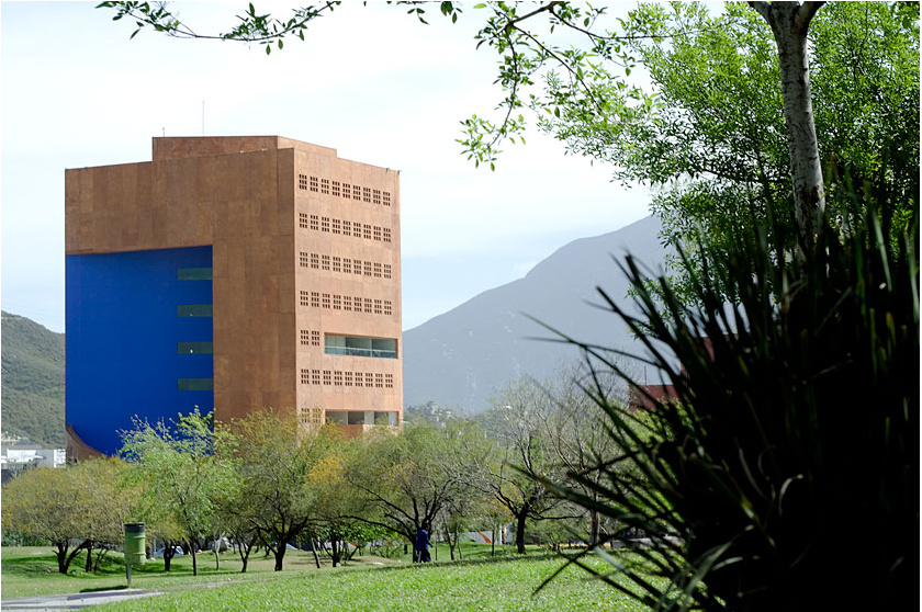 The Graduate School of Public Management of the Monterrey Institute of Technology and Higher Education in Monterrey, Mexico.